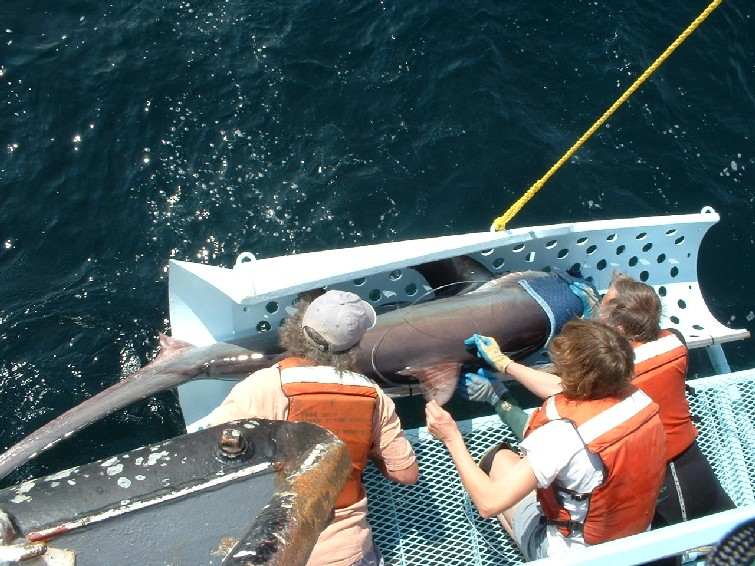 NOAA researchers study a common thresher (Alopias vulpinus).